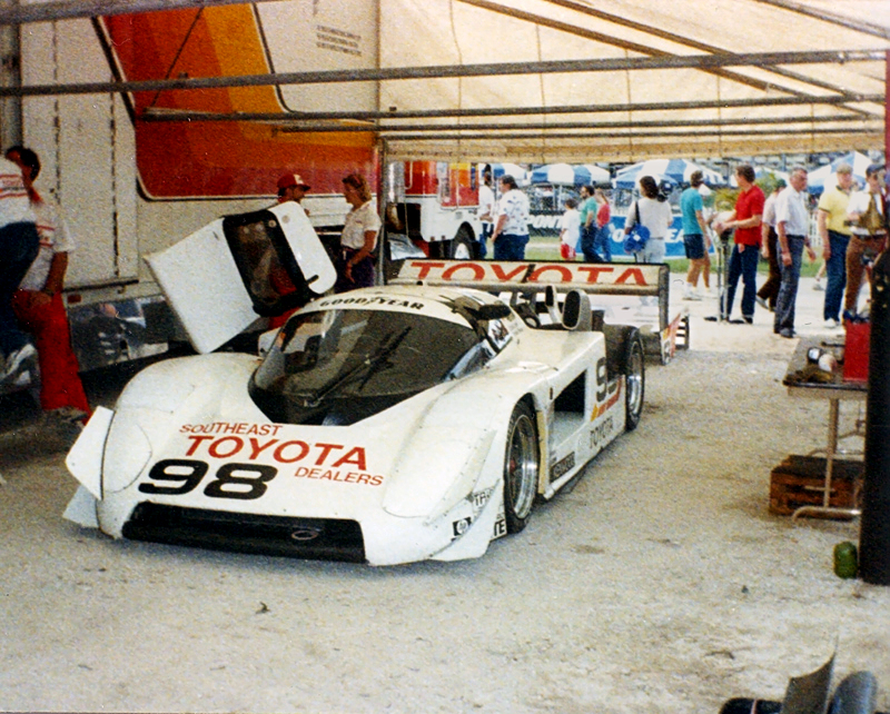 The Toyota 88C-based IMSA GTP car, entered by Dan Gurney's All American Racers, in the paddock at the 1989 West Palm Beach Grand Prix. Photo taken with a Vivitar 110 film camera.